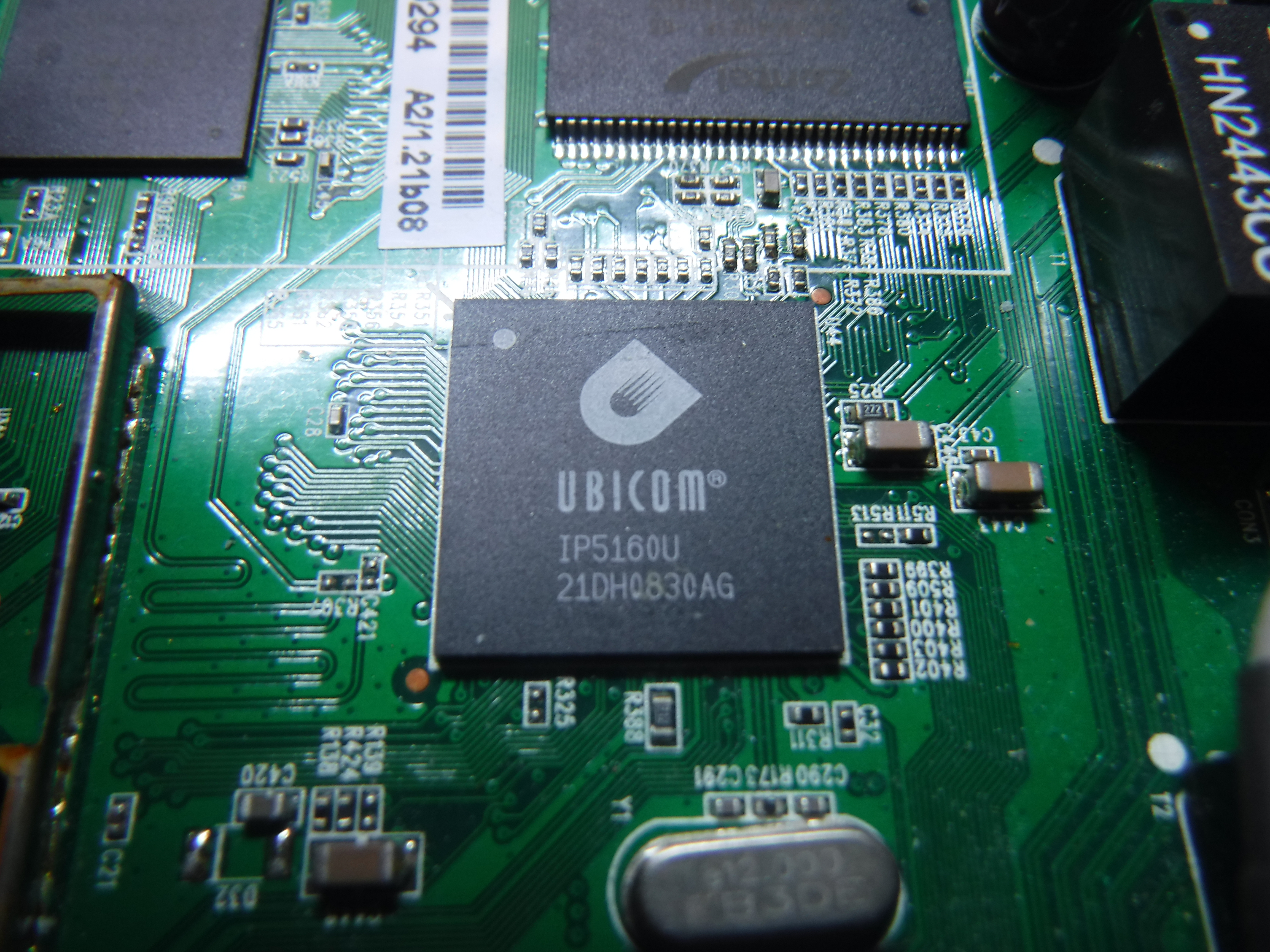 Ubicom IP5160U IC found in D-Link DIR-655